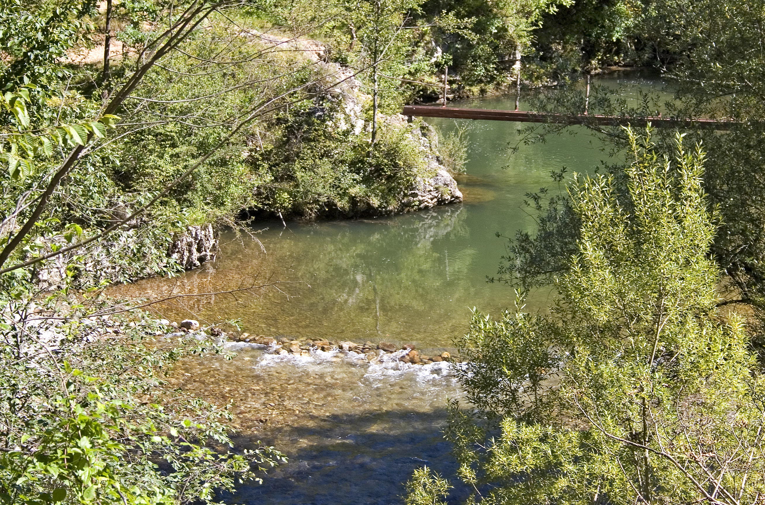 River Rzav, Central Serbia